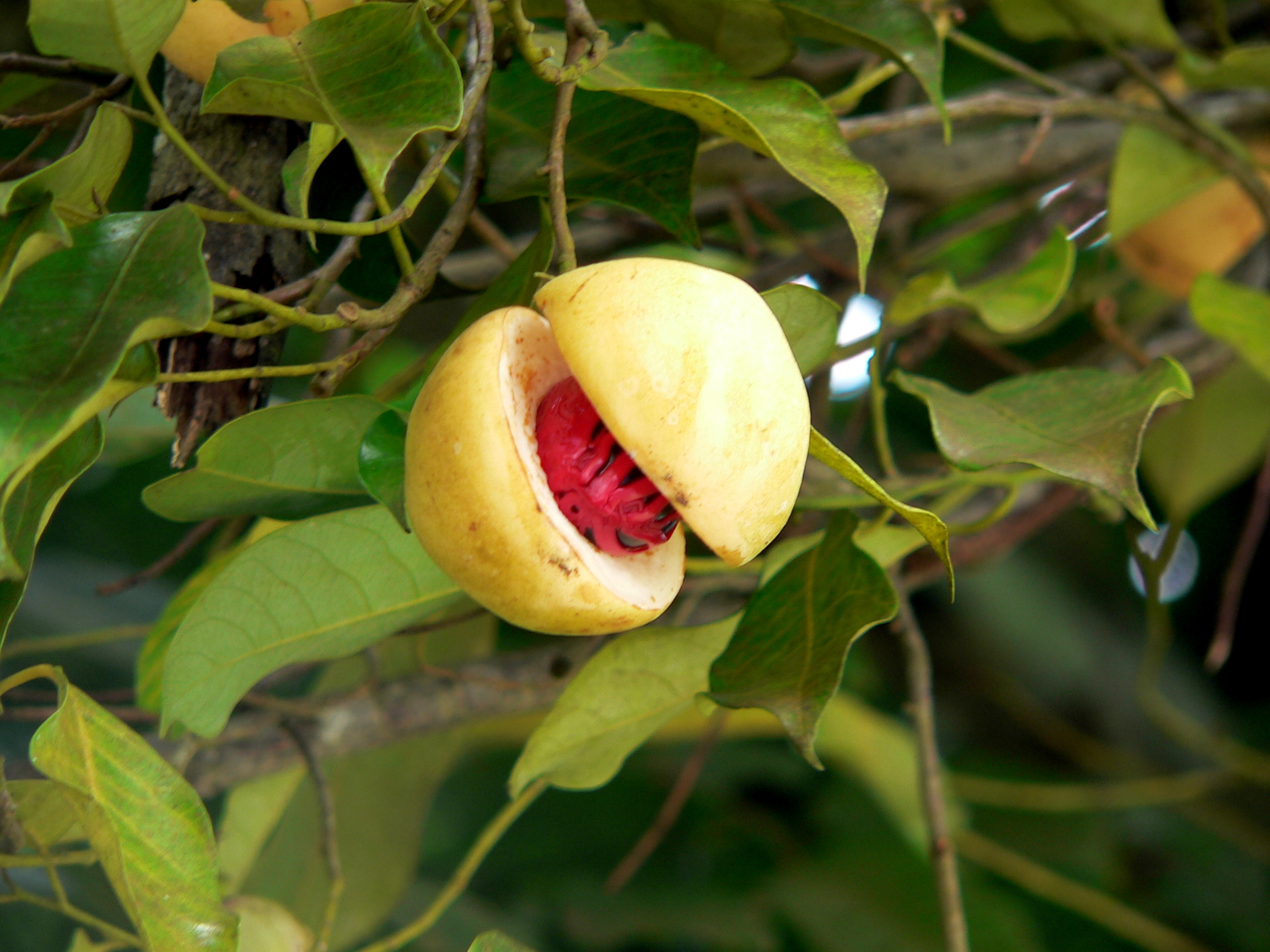 Taken on our trip to Grenada in 2011 - The nutmeg spice comes from the seed inside the nut inside the fruit of this tree.